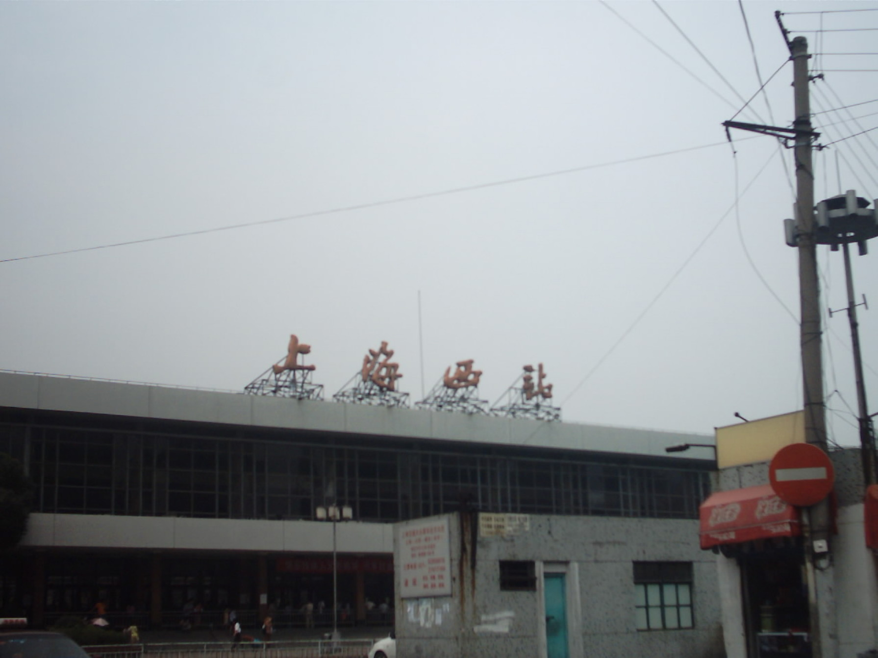 Shanghai west station